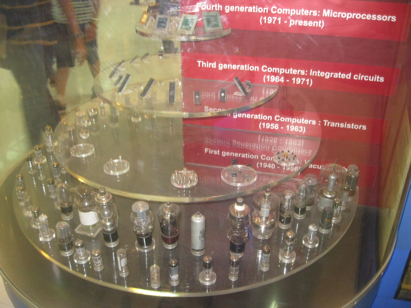 Visvesvaraya Industrial and Technological Museum